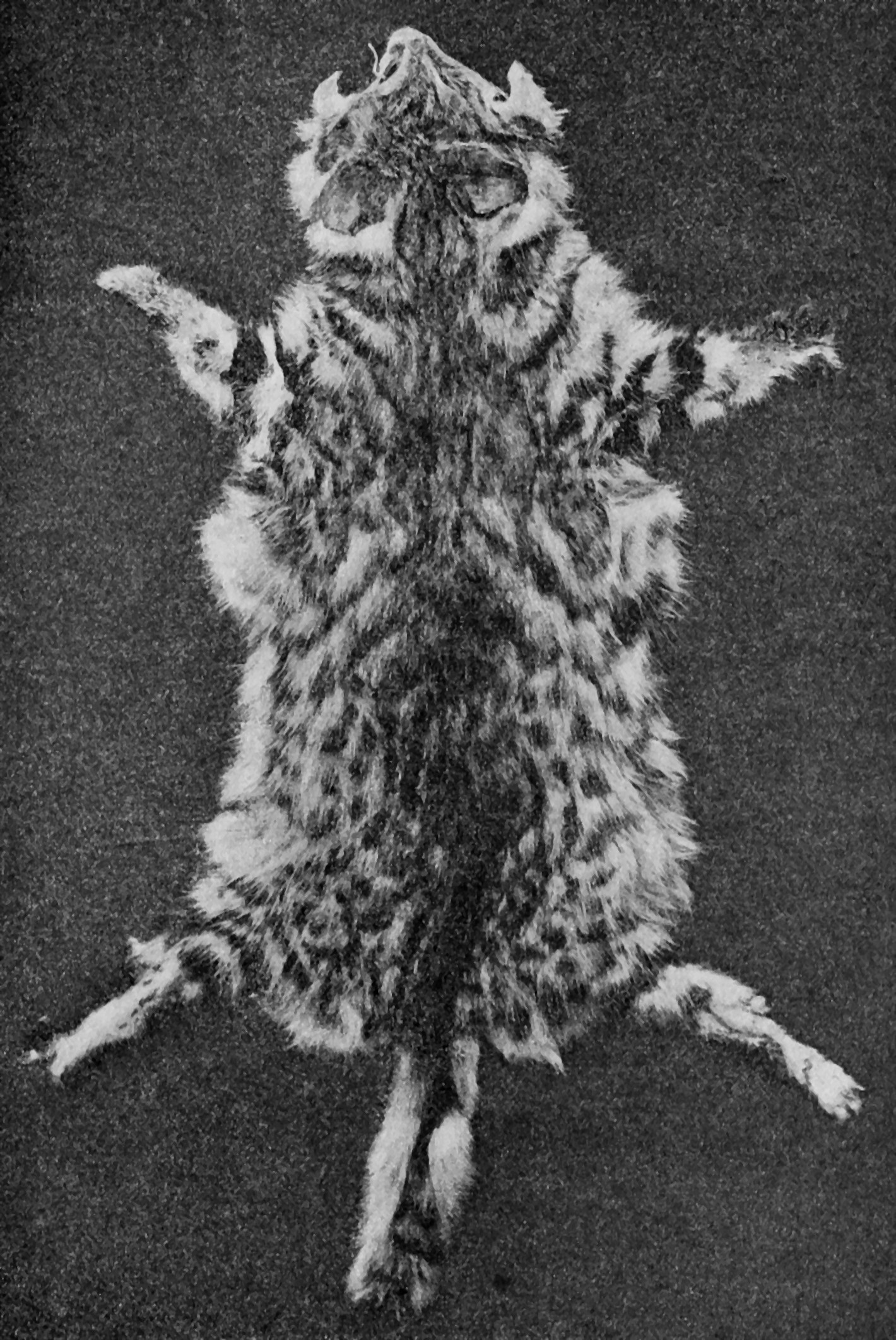 Black-footed Cat skin in winter fur.